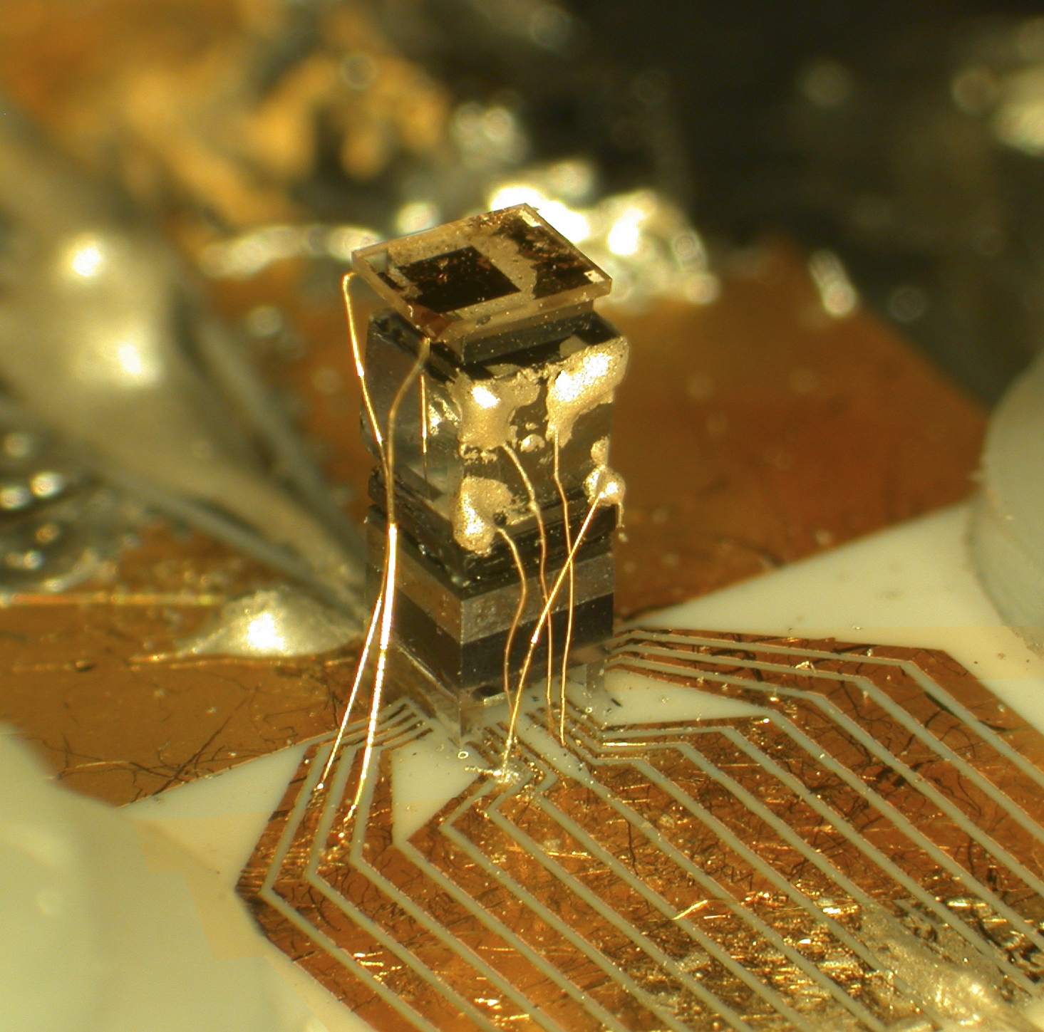 Chip-Scale Atomic Clock Unveiled by NIST. Original caption: "The physics package of the NIST chip-scale atomic clock includes (from the bottom) a laser, a lens, an optical attenuator to reduce the laser power, a waveplate that changes the polarization of the light, a cell containing a vapor of cesium atoms, and (on top) a photodiode to detect the laser light transmitted through the cell. The tiny gold wires provide electrical connections to the electronics for the clock."